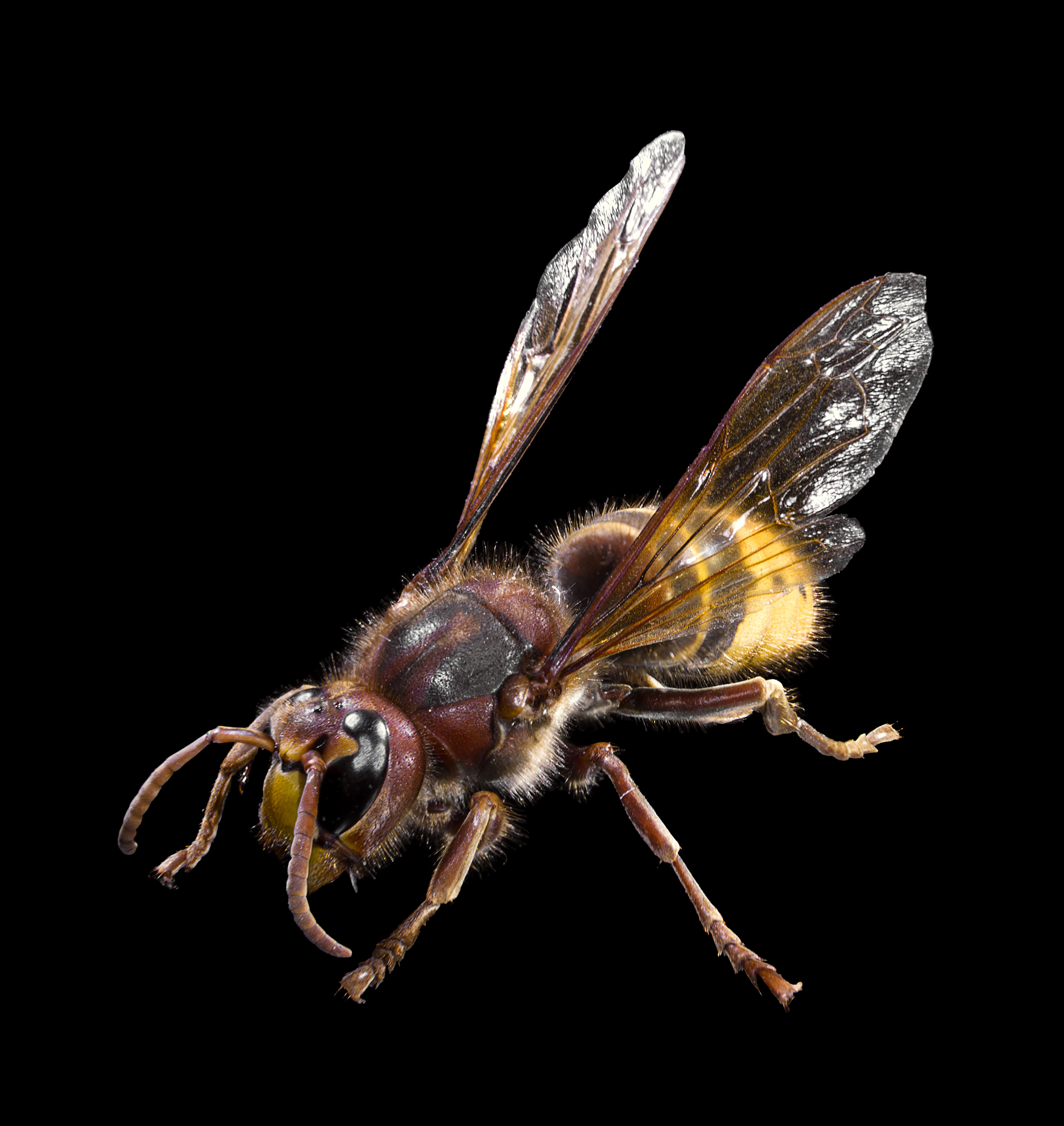 European hornet Locality : Fronton, Midi-Pyrénées, France Size : 2.5 cm - (Femal)